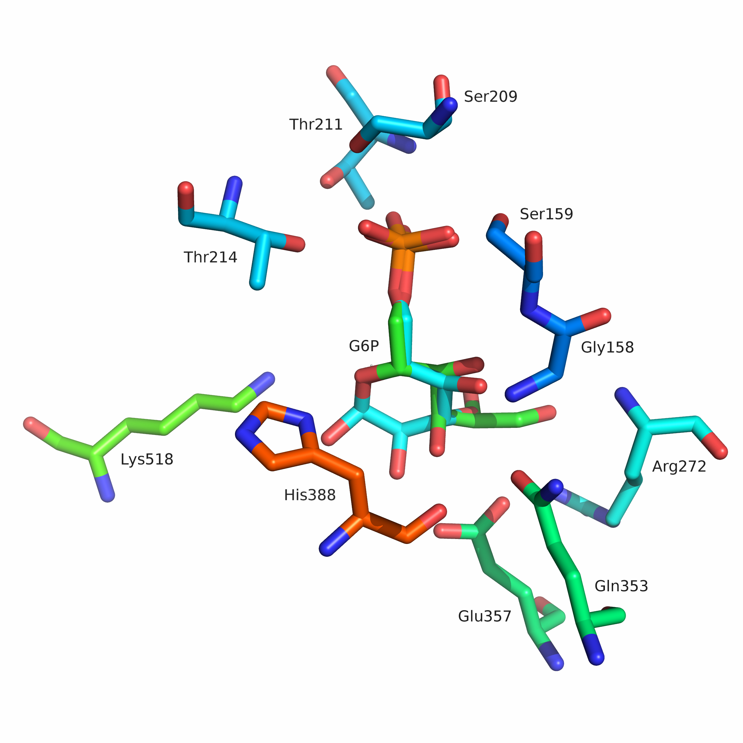 Active site of mouse glucose-6-phosphate isomerase, after PDB: 1U0F​.